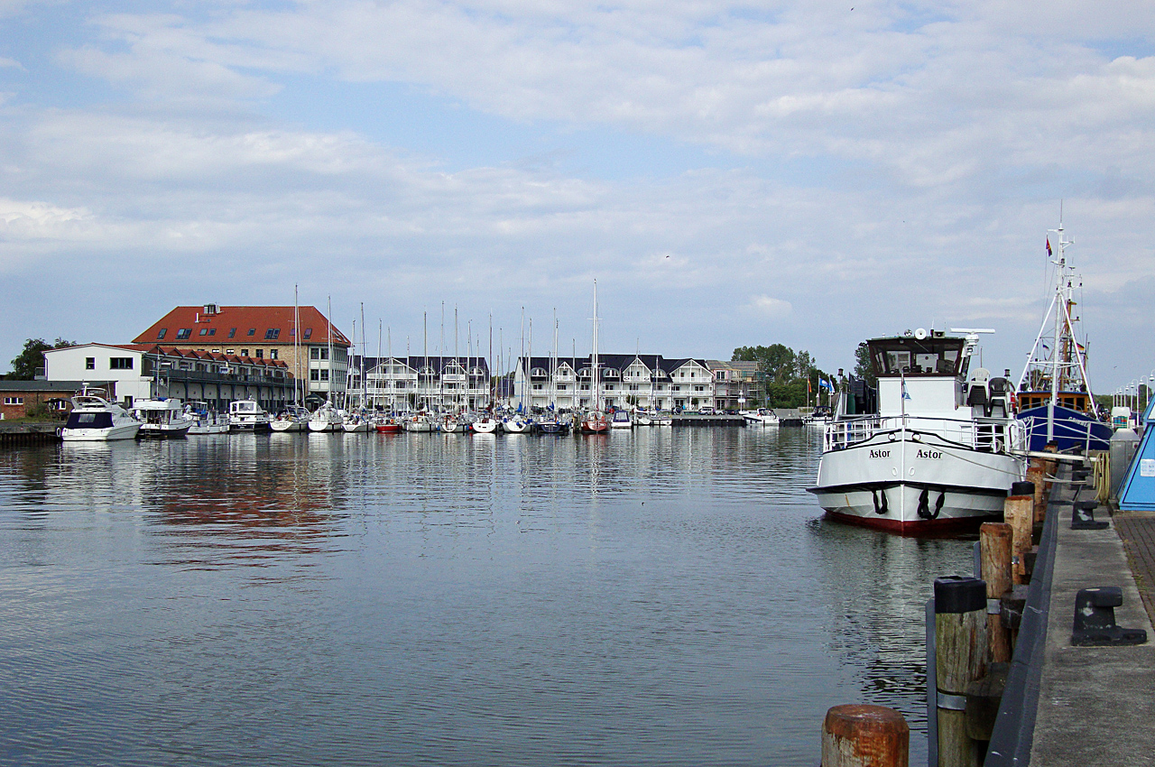 Karlshagen, Marina and Fishing port